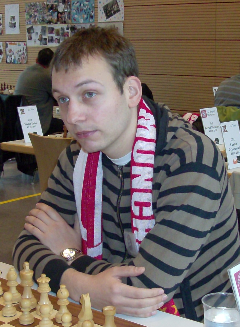 Andreas Schenk, chess player from Germany